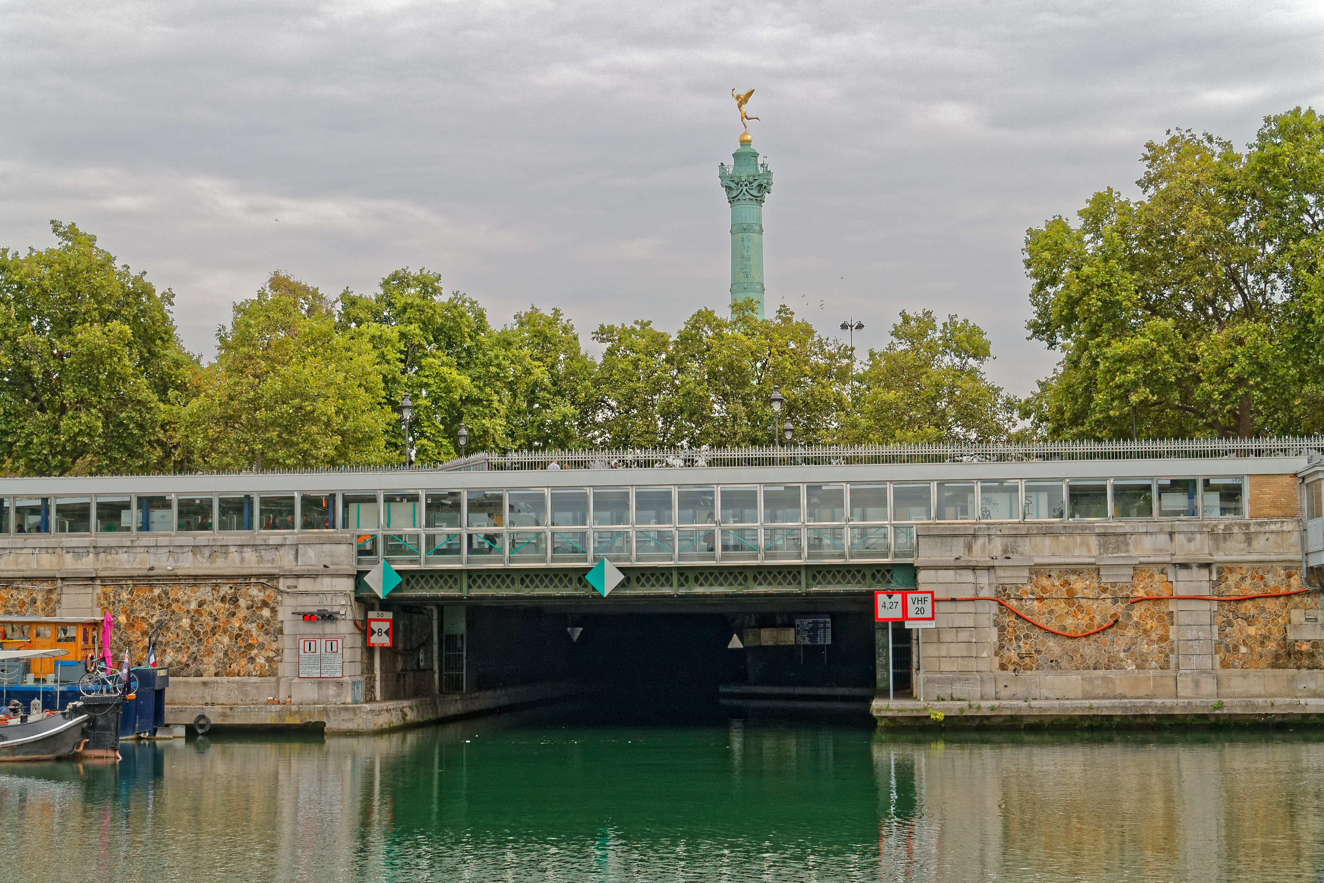 Port de l'Arsenal, this underground canal links Bastille to République, Paris, France.